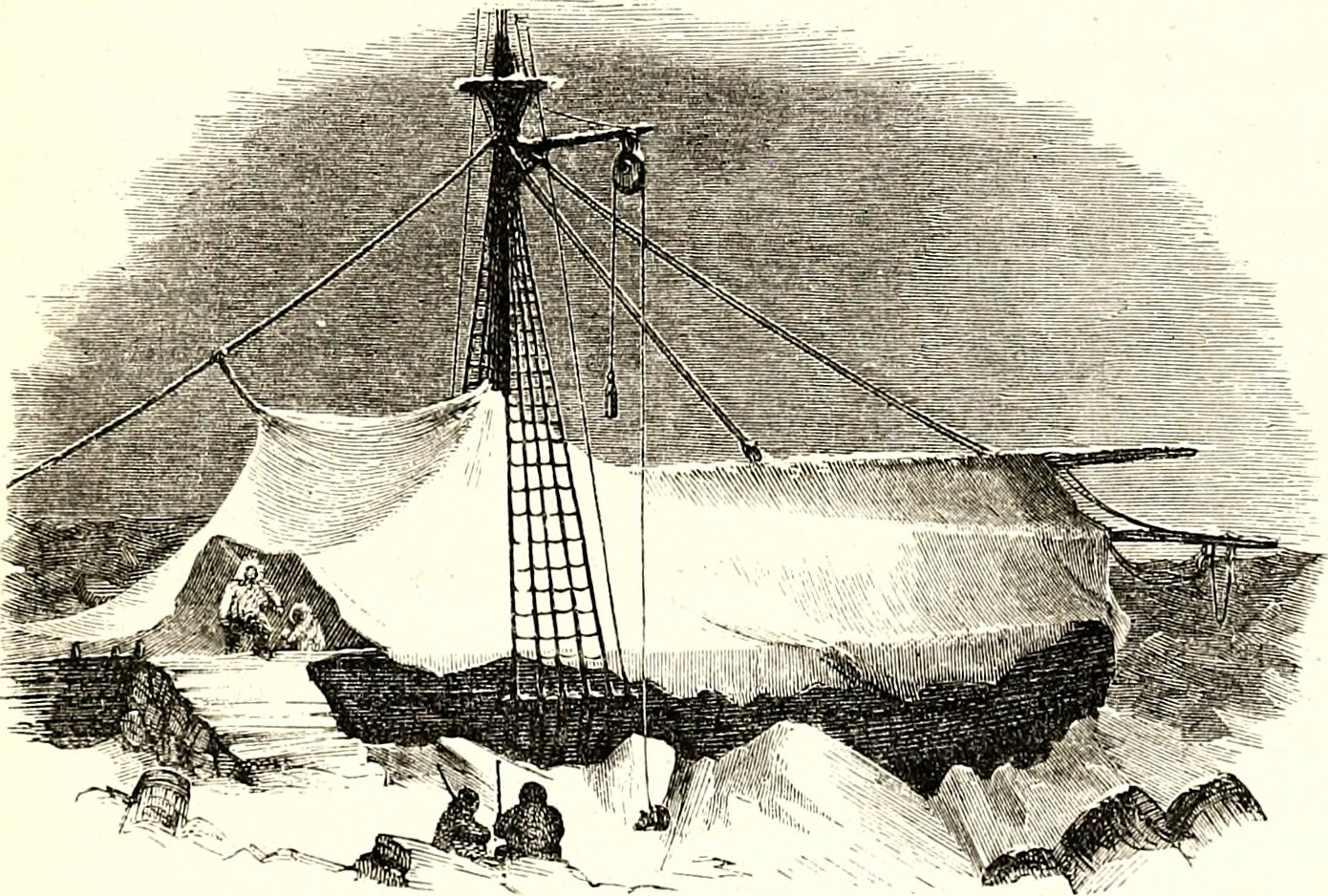 As per title.